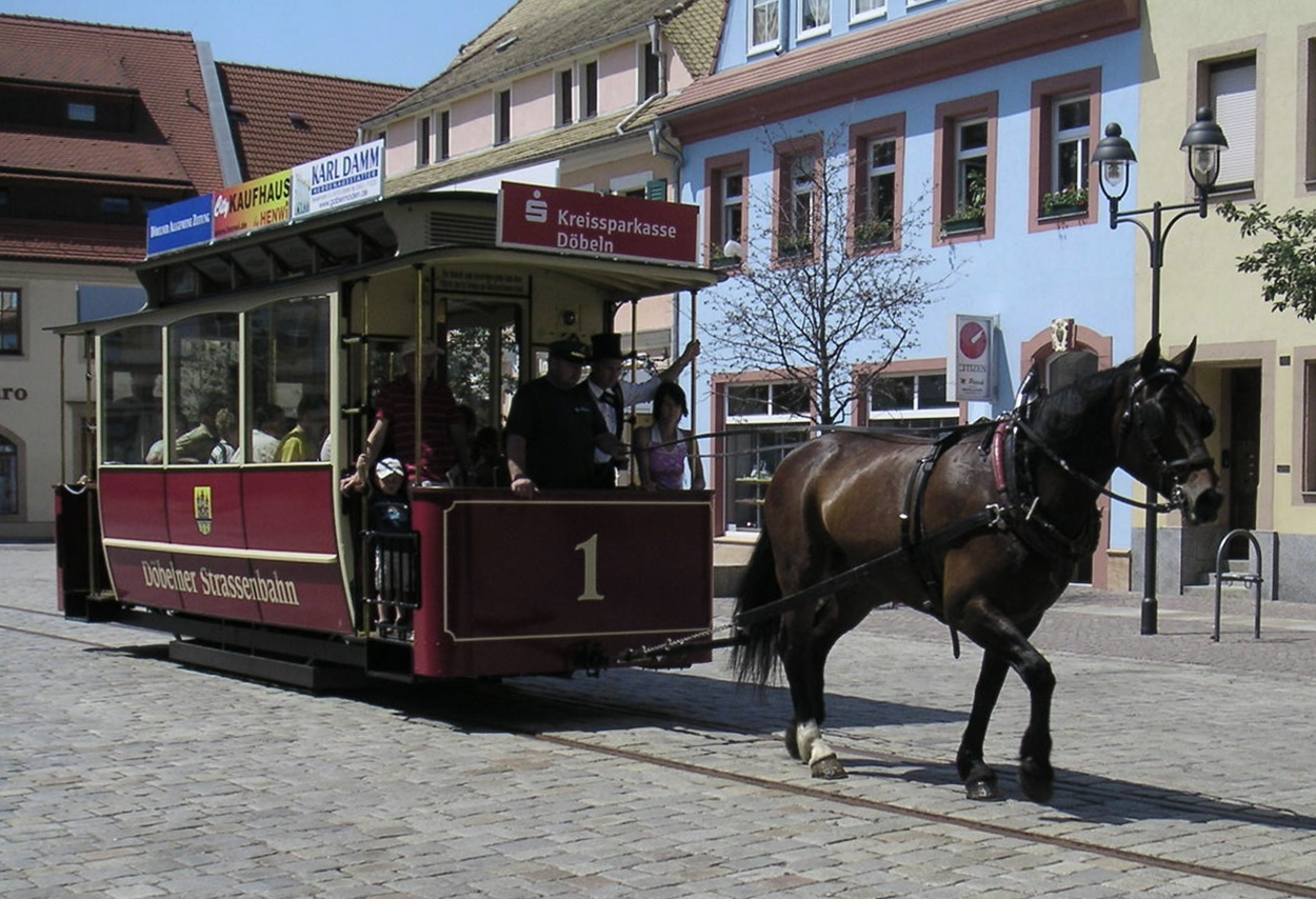 A car of the Döbeln Tramway, a horse tram line in the German town of Döbeln. For more information, see the Wikipedia article Döbeln Tramway.